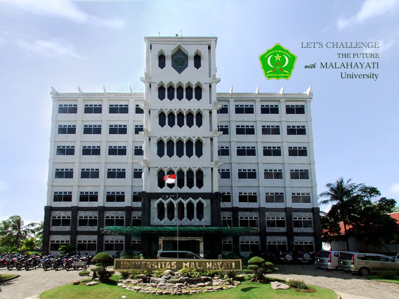 Gedung Rektorat Universitas Malahayati